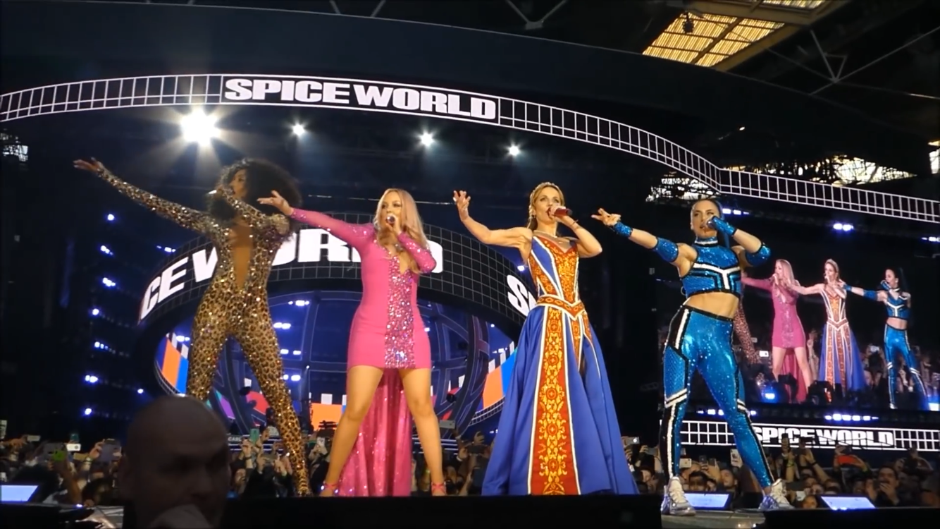 Spice Girls performing at Wembley Stadium, 14 June 2019